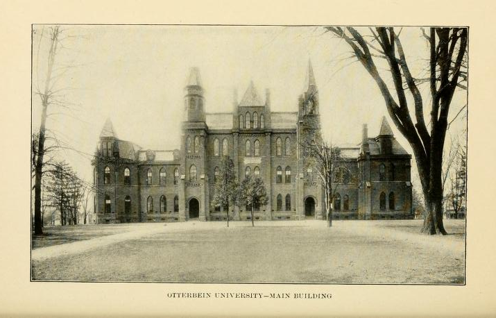 Otterbein University building about 1900